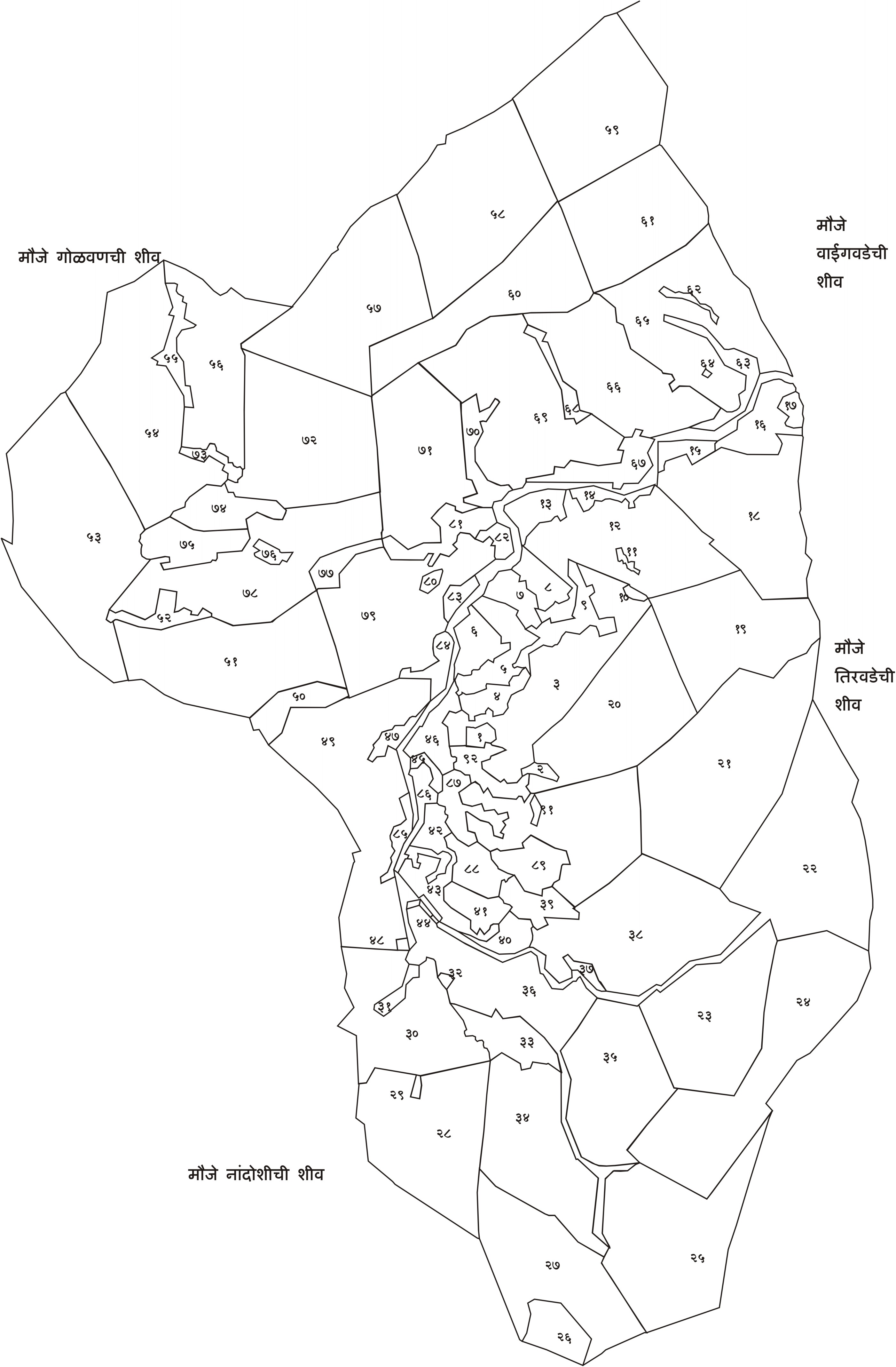 The Shape of map is official.